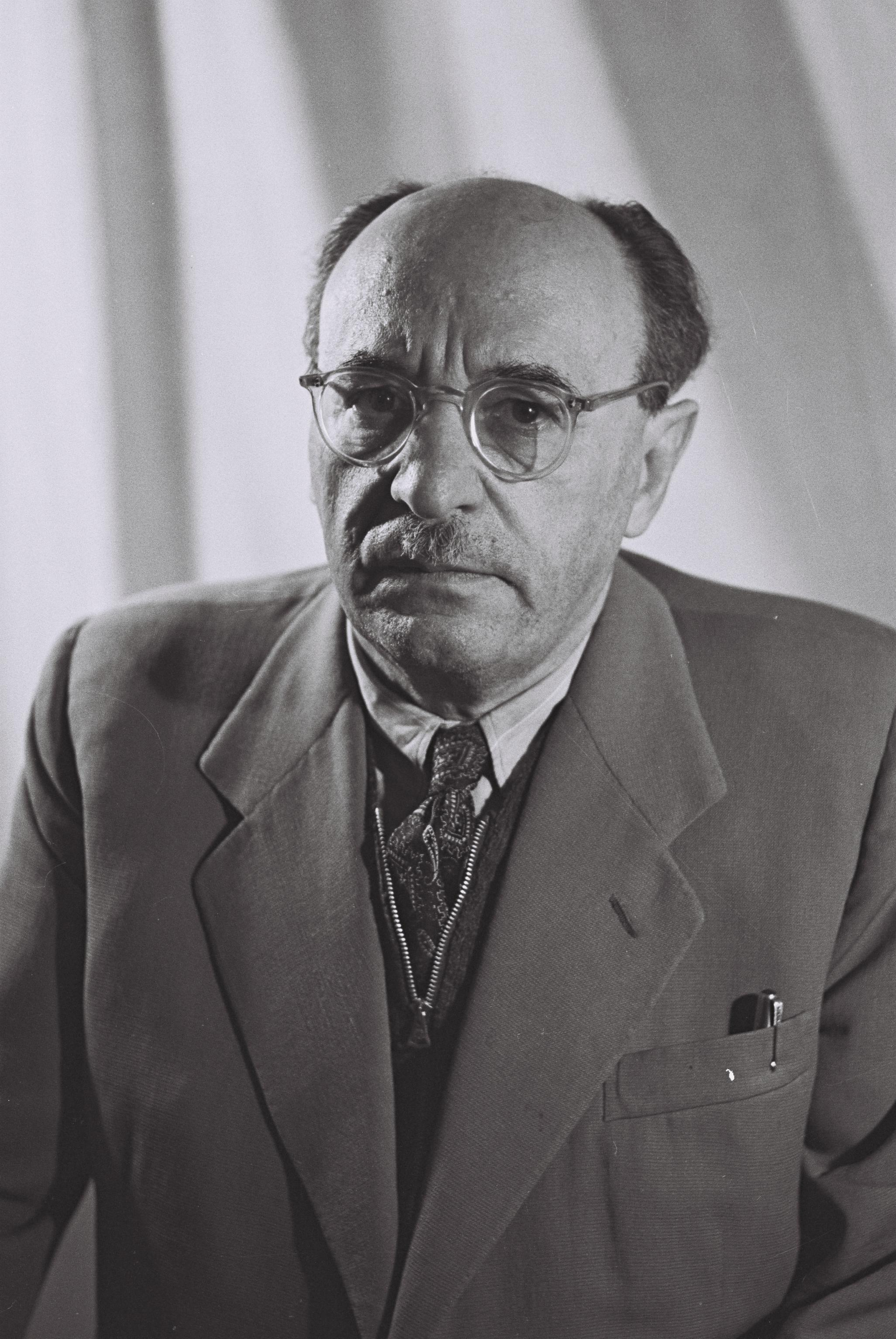 Portrait, Zalman Shazar, m.k. Mapai.